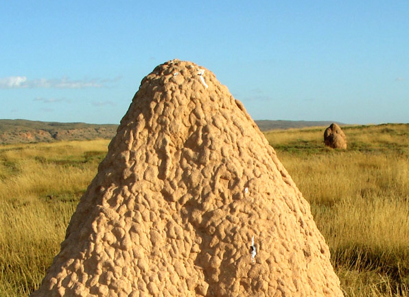 termite exmouth mound, Australia.